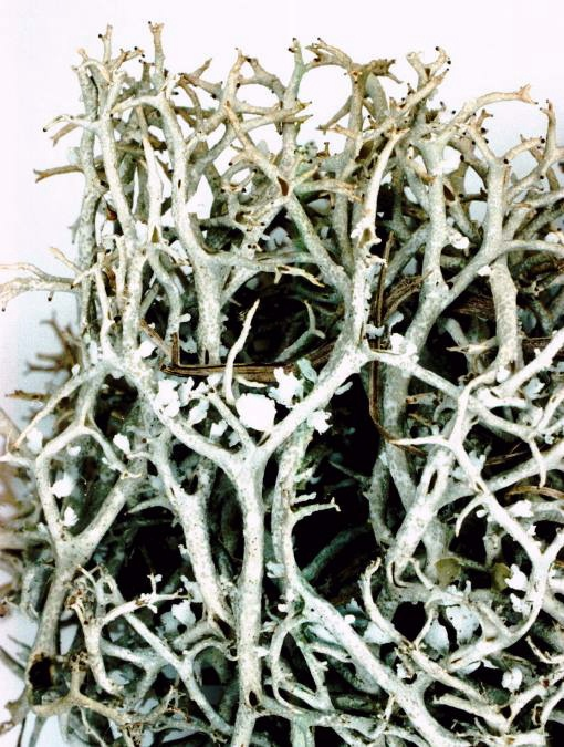 Cladonia furcata (Hudson) Schrader, 1794 Photograph of a herbarium specimen. Note the squamules on the podetia. This specimen of Cladonia furcata was growing on soil near the Endless Mountain Retreat, S on County Road 601, approximately 2.4 miles from US 250 in Highland County, Virginia, USA. Collected by E.C. Uebel, and identified by Don G. Flenniken (No. U-366, 8 Jun 2002).